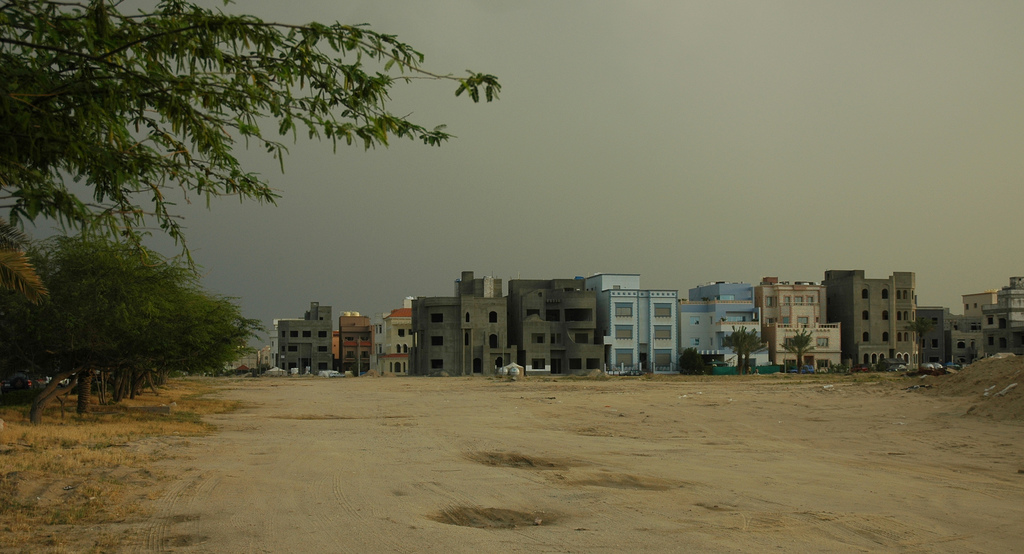 Mangaf's new houses